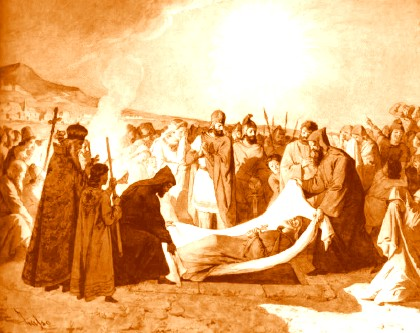 Internment of st. Mesrop Mashtots in the Oshakan mausoleum